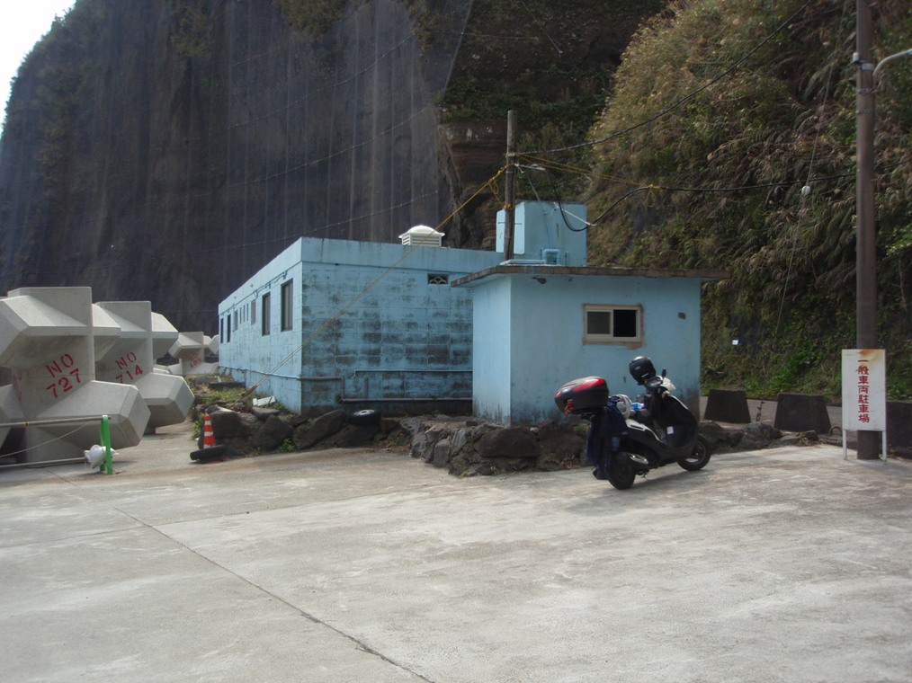 Borawazawa_spa